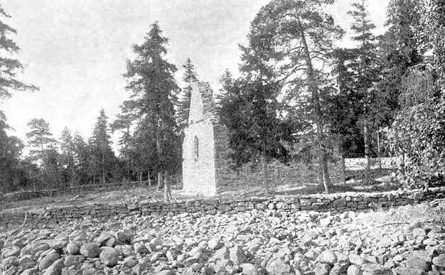 Ruins of Lemböte Chapel in Lemland, Åland, Finland